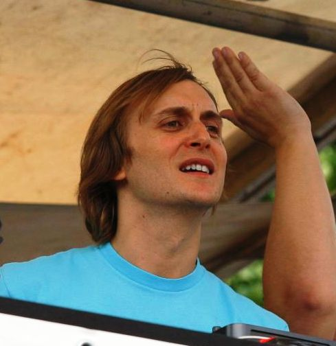 David Guetta in a concert in México during his worldwide tour "One Love Tour".